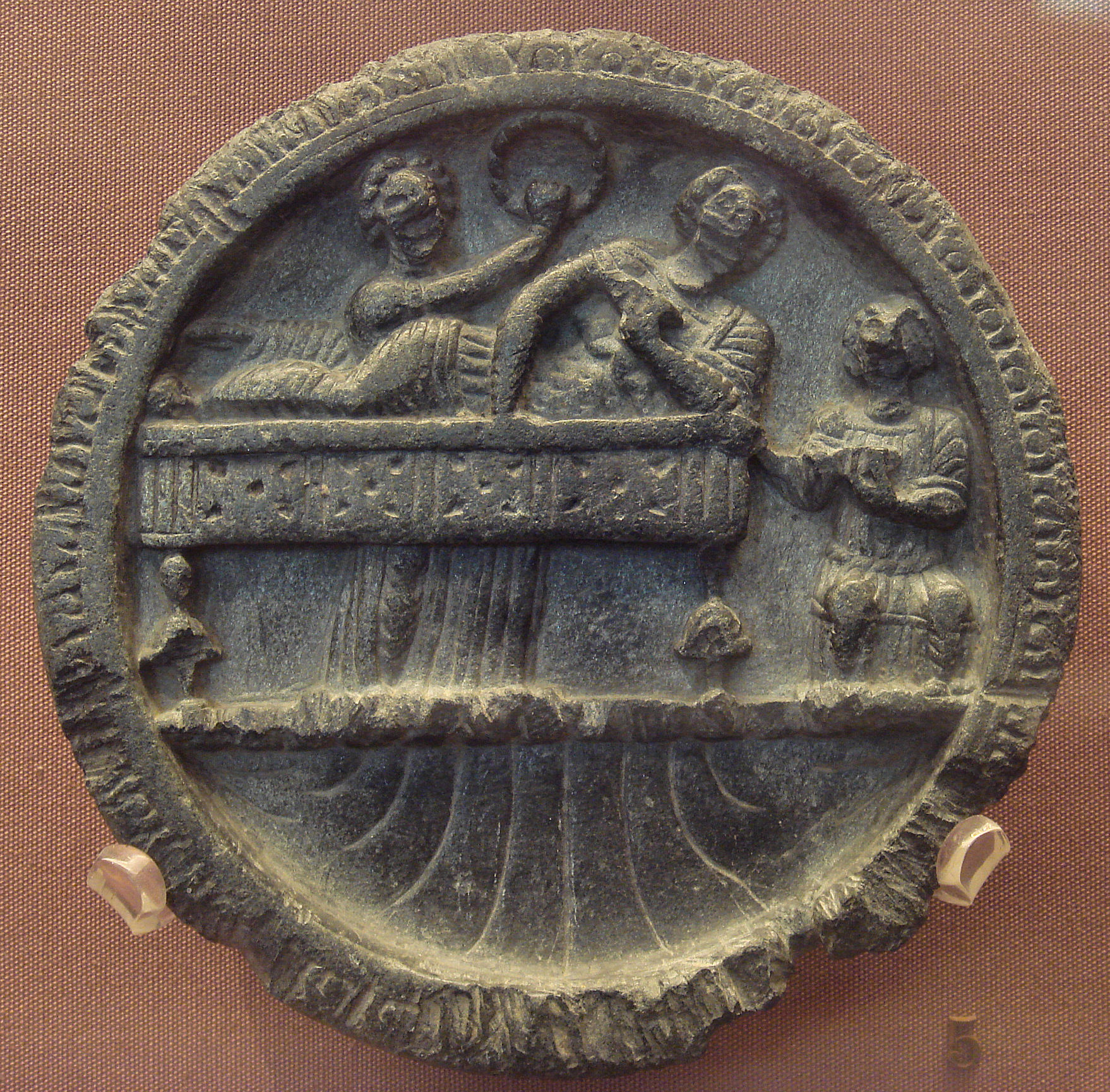 Gandharan stone palette. Attributed to the 1st century CE. British Museum. Personal photograph.